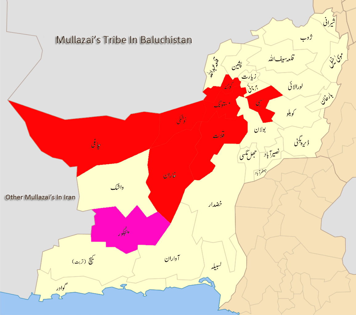 Mullazais In BaluchistanAdapted File:Balochistan Dist PanjGoor.svg by Tahir mq to show the presence of the Mullazai tribe in the Pakistani Province of Baluchistan.